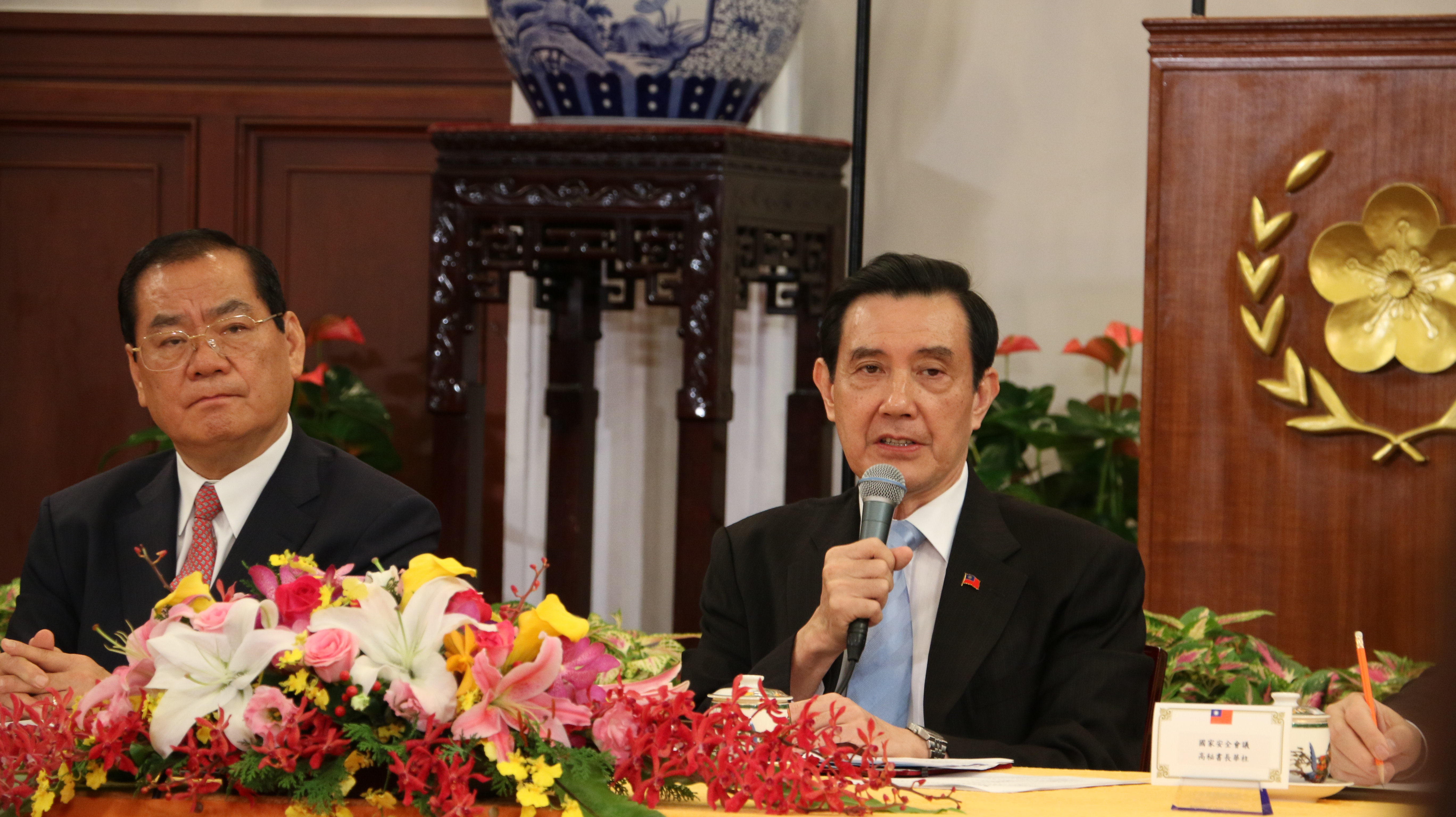 Ma Ying-jeou at a press conference on November 6, 2015 before his meeting with Xi Jinping in Singapore.